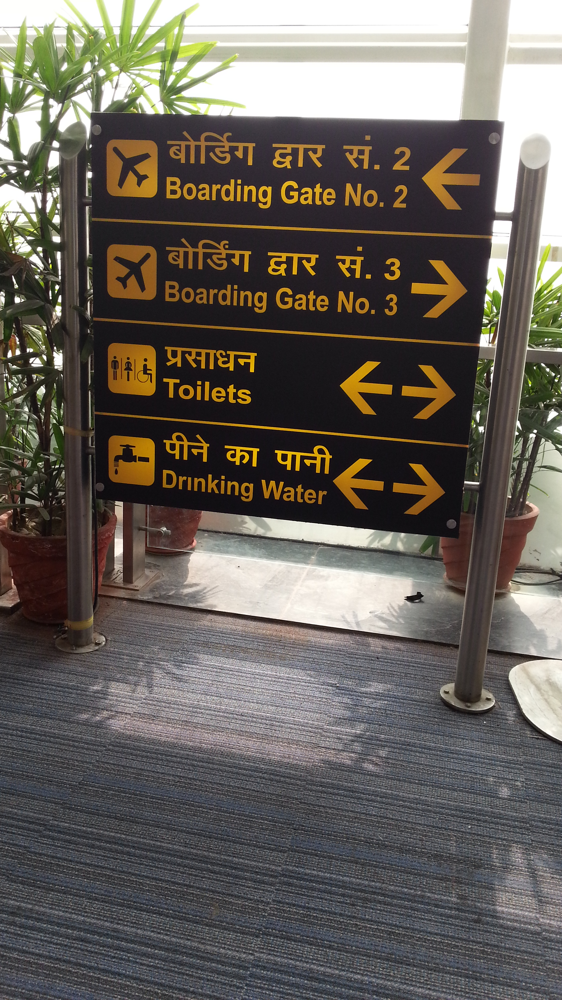 Signage at Jaipur International Airport